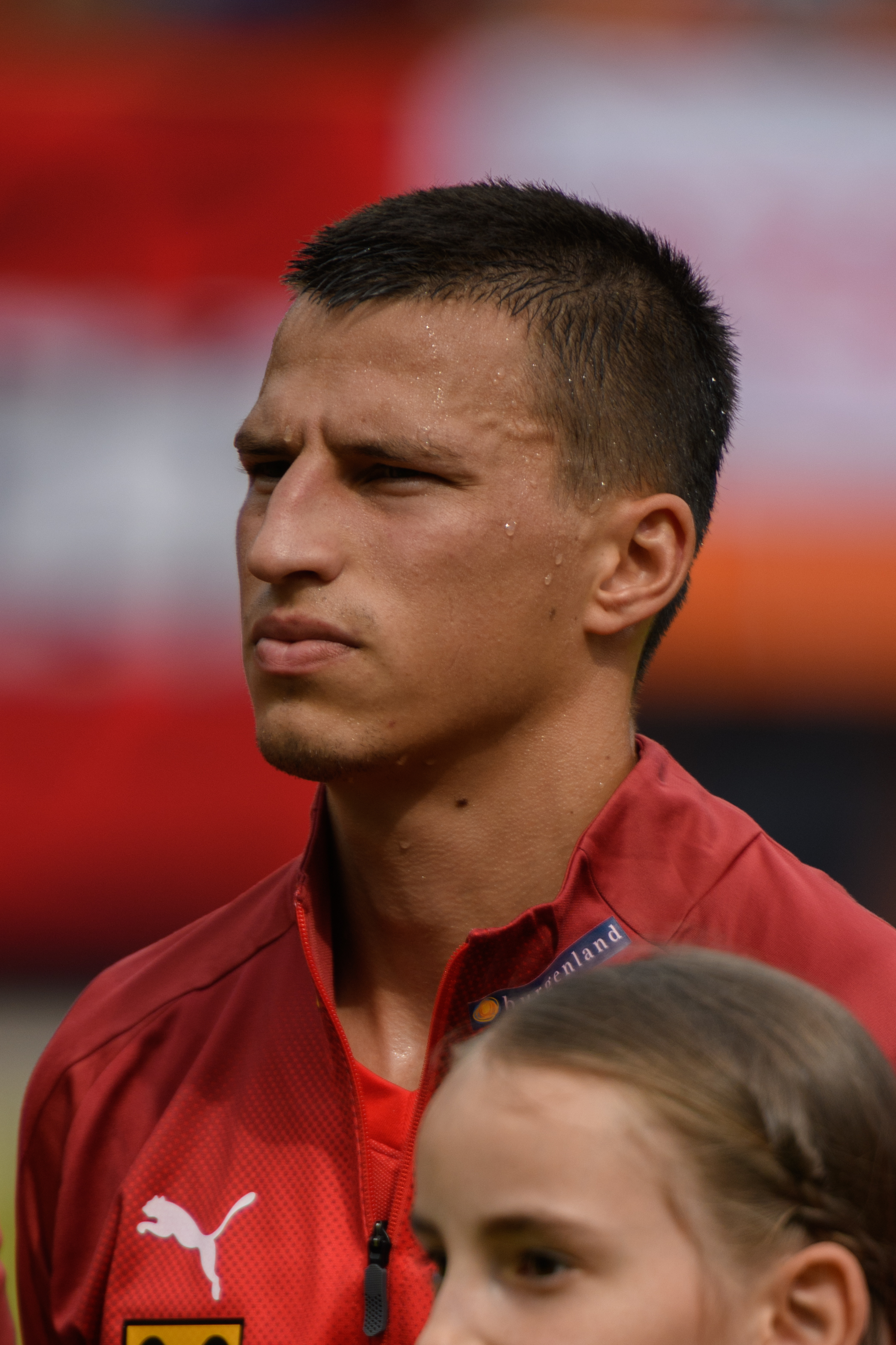 FIFA Friendly Match Austria vs. Brazil 2018/06/10 in Vienna/Ernst-Happel-Stadium. Picture shows Stefan Lainer (AUT)